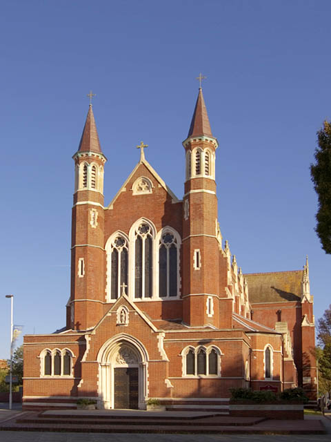 Portsmouth Catholic Cathedral of St John Author: Antony McCallum